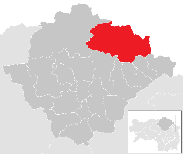 district Bruck-Mürzzuschlag